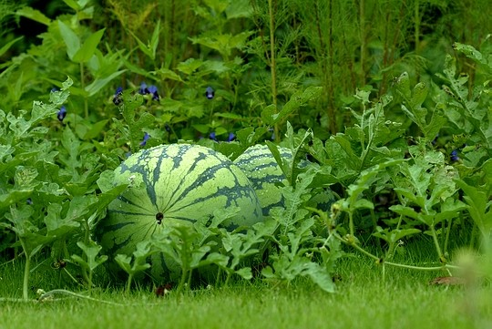 Watermelons